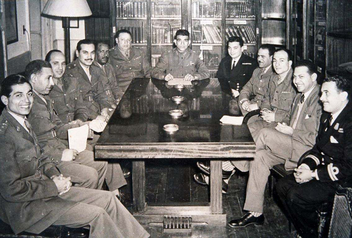 Mohamed Nagib 1950